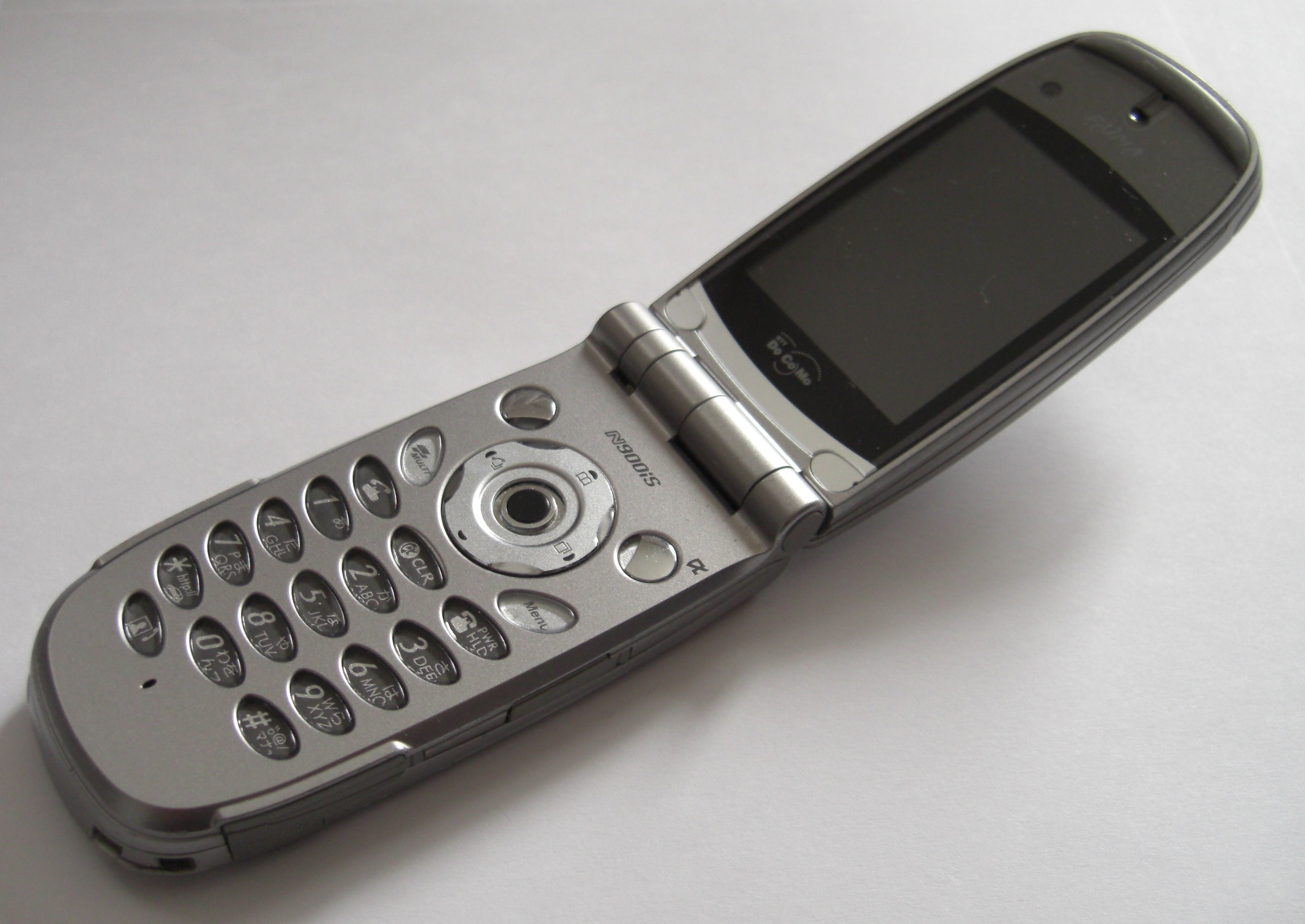 FOMA N900iS